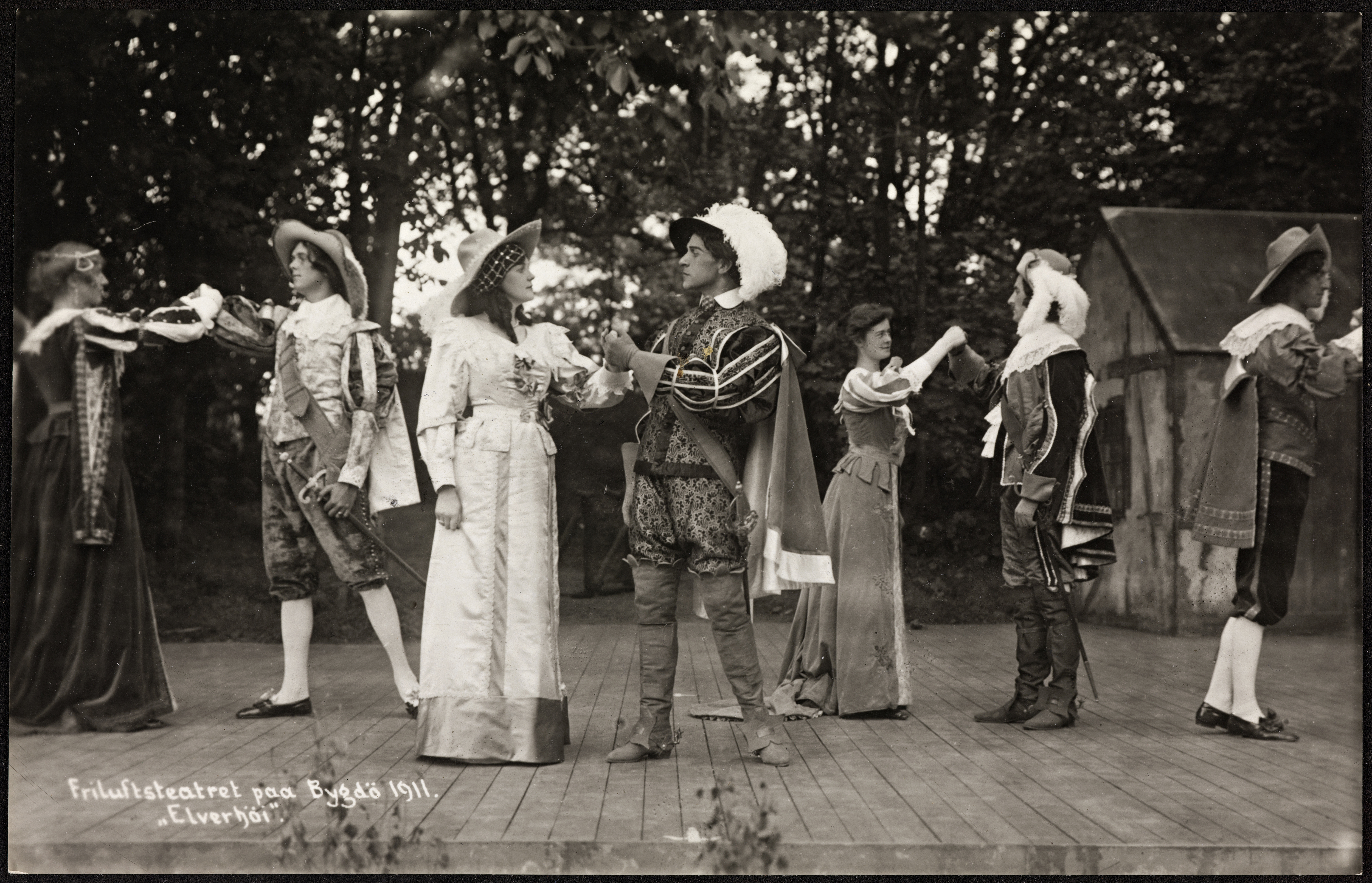 Beskrivelse / Description: "Elverhøj" av Johan Ludvig Heiberg med musikk av Friedrich Kuhlau (1828) er kjent som det danske nasjonalskuespillet. Dato / Date: 1911 Sted / Place: Oslo, Bygdøy, Friluftsteatret Fotograf / Photographer: Rude & Hilfling Utgiver / Publisher: Friluftsteateret Digital kopi av original / Digital copy of original: s / h postkort, sølvgelatin Eier / Owner Institution: Nasjonalbiblioteket / National Library of Norway Lenke / Link: Bildesignatur / Image Number: blds_07061